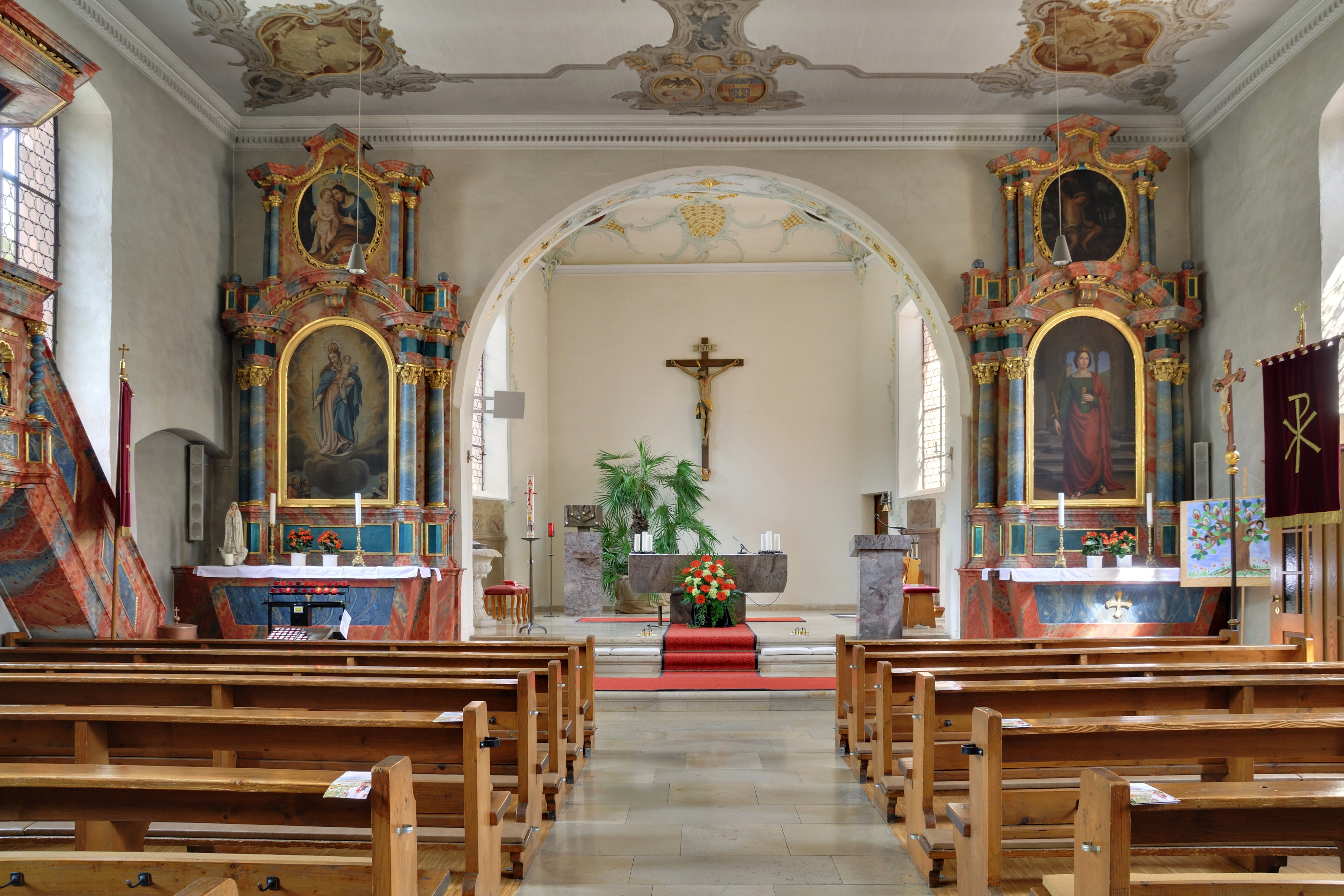 Liel: Saint Vinzenz Church